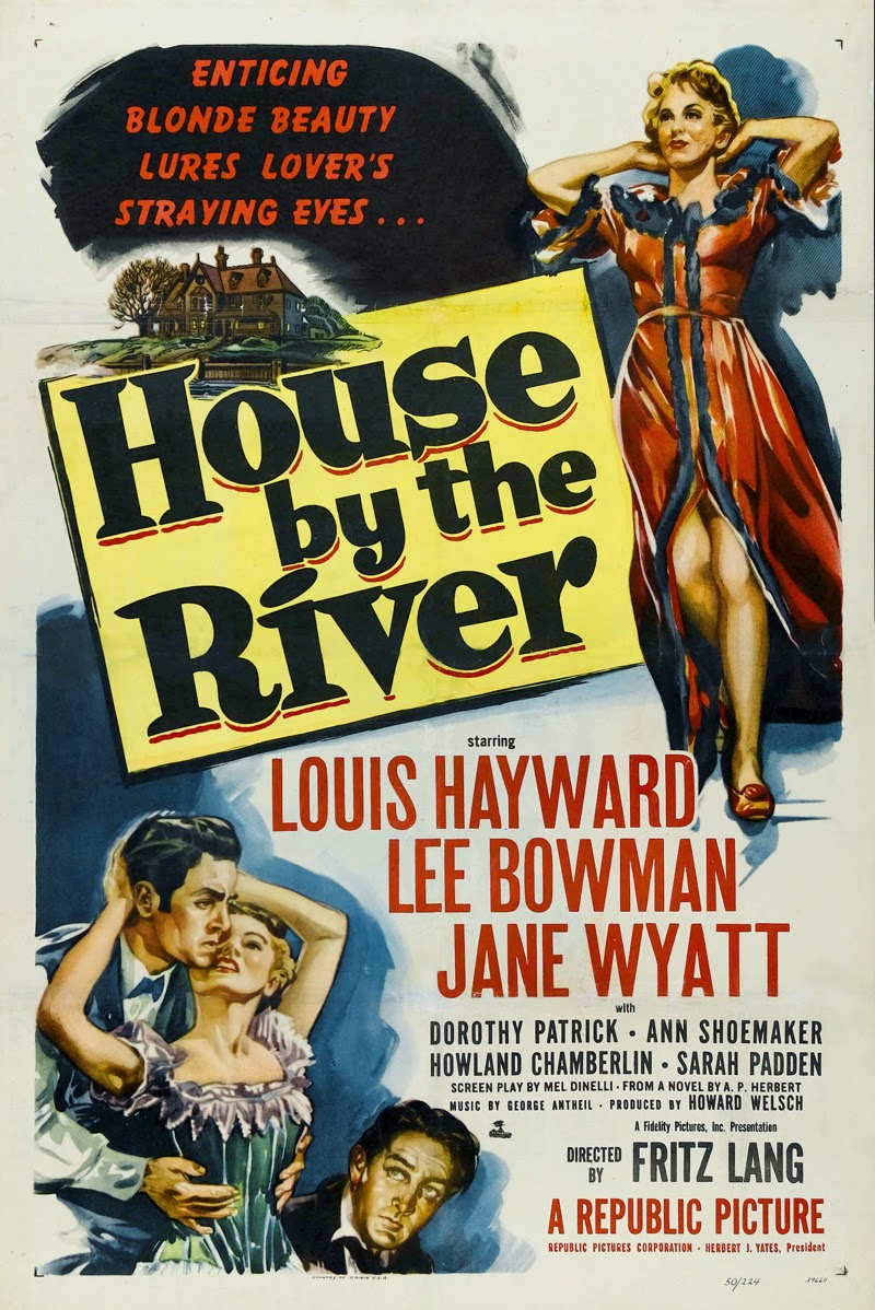 Poster for the 1950 film House By the River. The item has no copyright markings on it as can be seen in the links above. At bottom is Country of origin USA, 50/224 and 39660. These look to be associated with the printing of the poster.